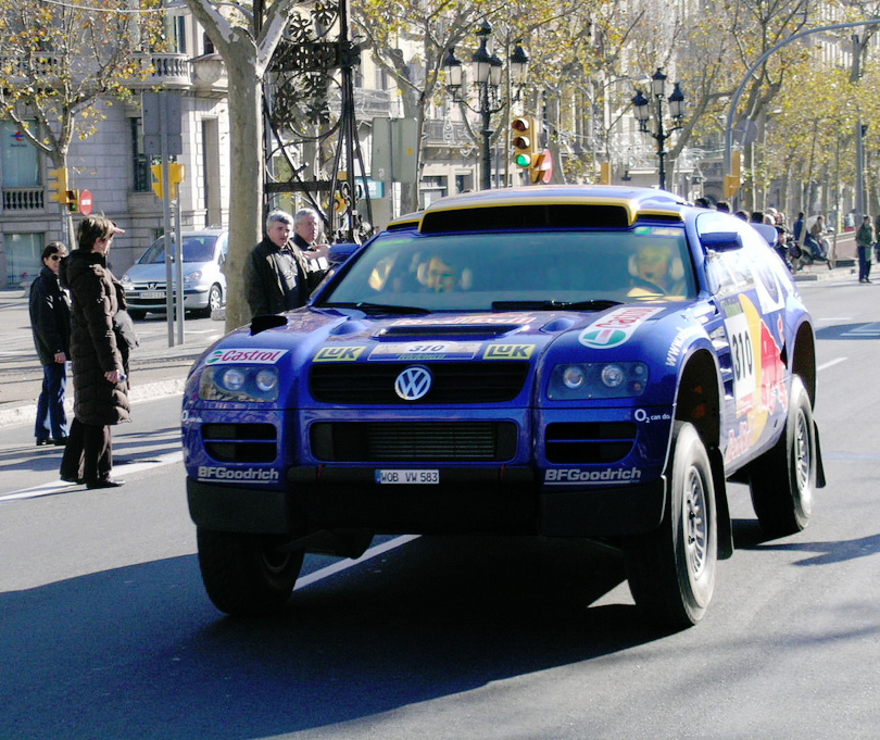 VW Touareg, Rallye Dakar, Paris, 2005, driven by Jutta Kleinschmidt